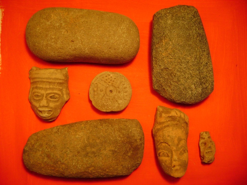 Some archeological pieces founded in Corral Falso in Atoyac de Alvarez municipality, belongs to classic period of Cuitlateca culture